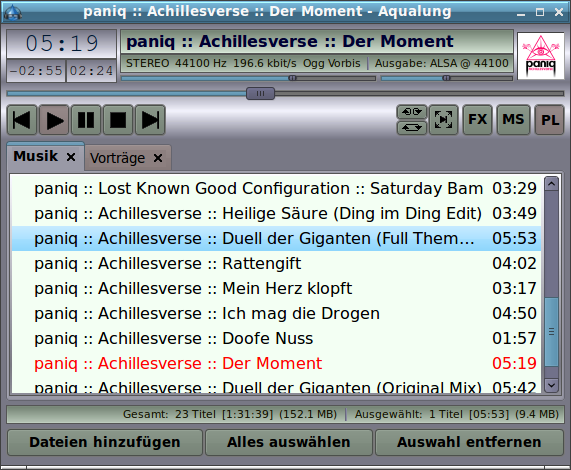 Screenshot of Aqualung's main window with playlist viewer in "metal" skin